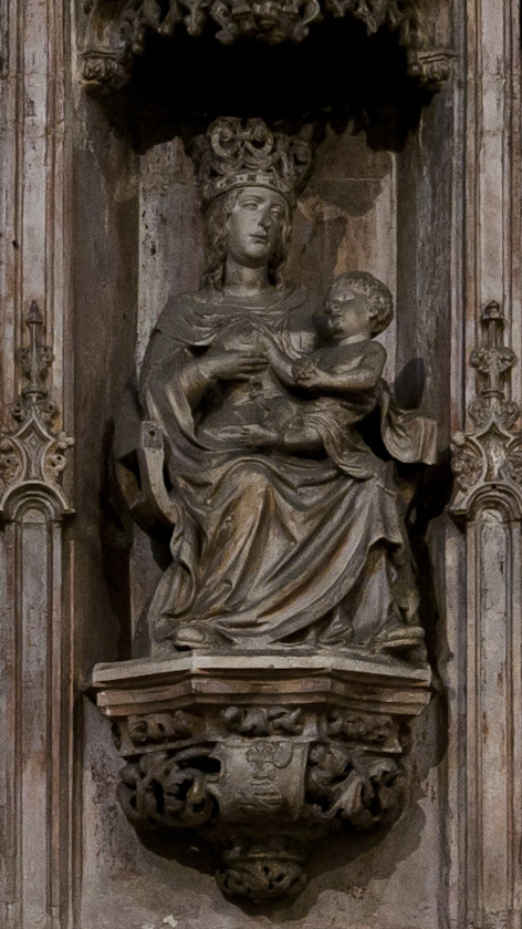 Mestre dos Túmulos Reais, Virgem do Leite, Igreja Santa Cruz, Coimbra